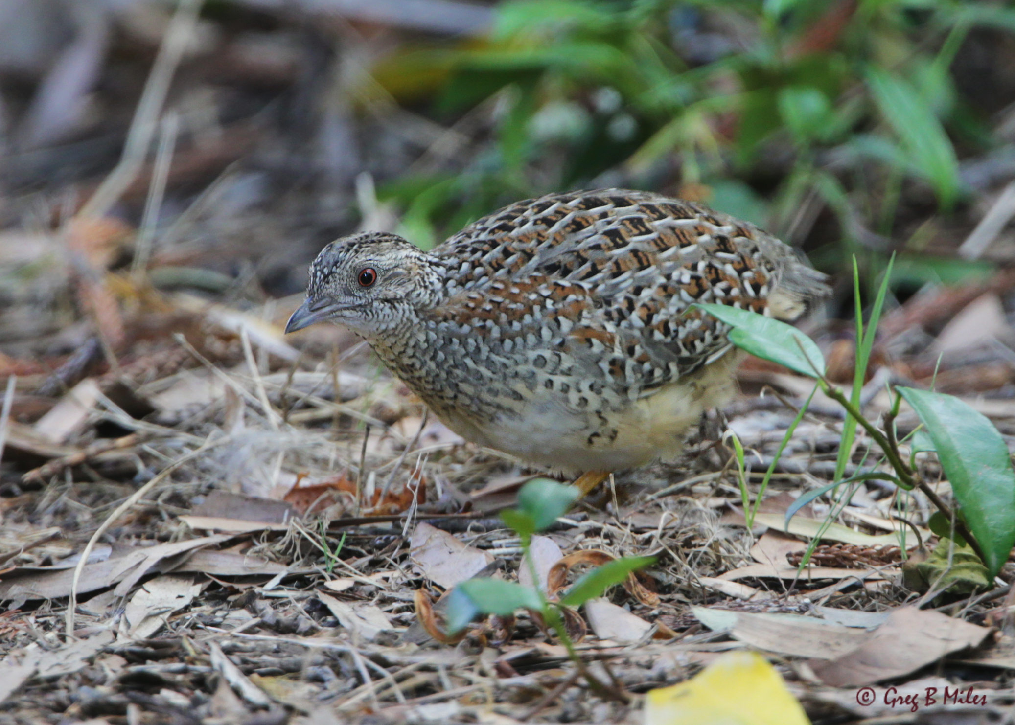 These little Button-quail arrive about this time every year at our place. I wondered where they went for the rest of the year so I did some research on the 'net and found out that they are sedentary in some parts and migratory in others but it is unknown where they go! I usually find them extremely hard to photograph but this one is an exception being more wary of a nearby Eastern Yellow Robin than the photographer!